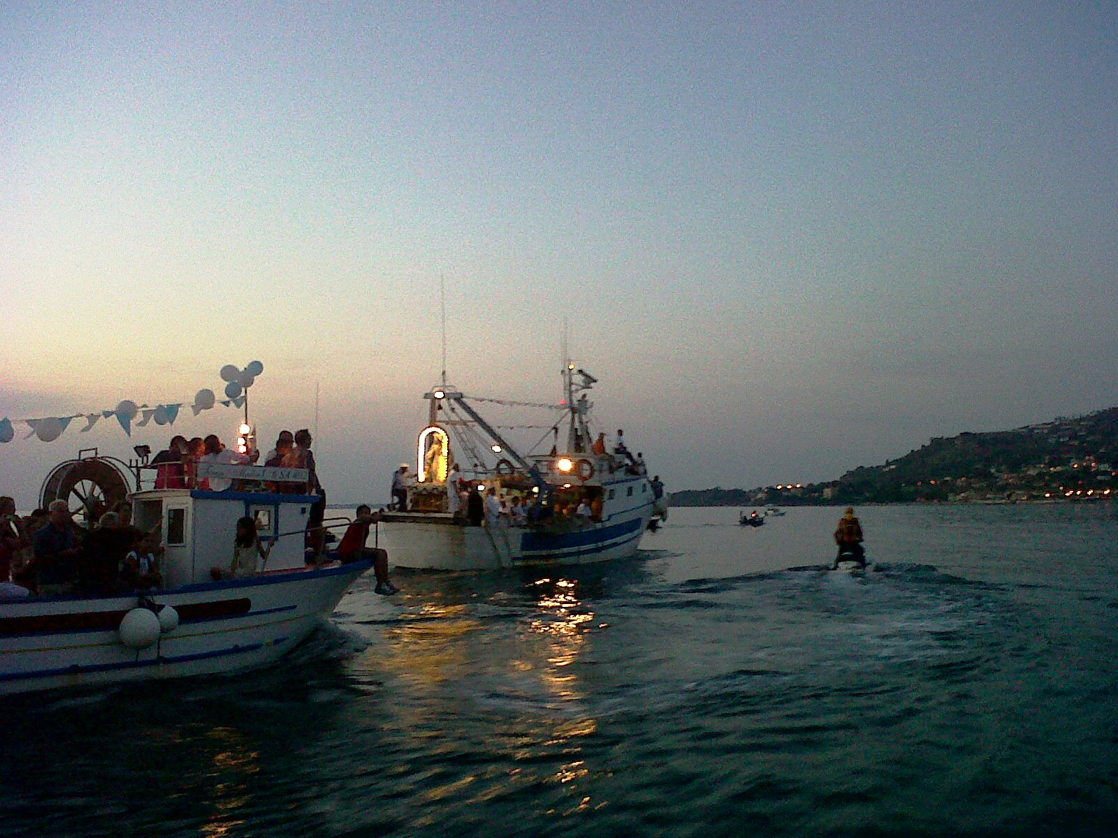 The statue of Our Lady of Constantinople is carried in procession into the sea by fishing boats from Agropoli